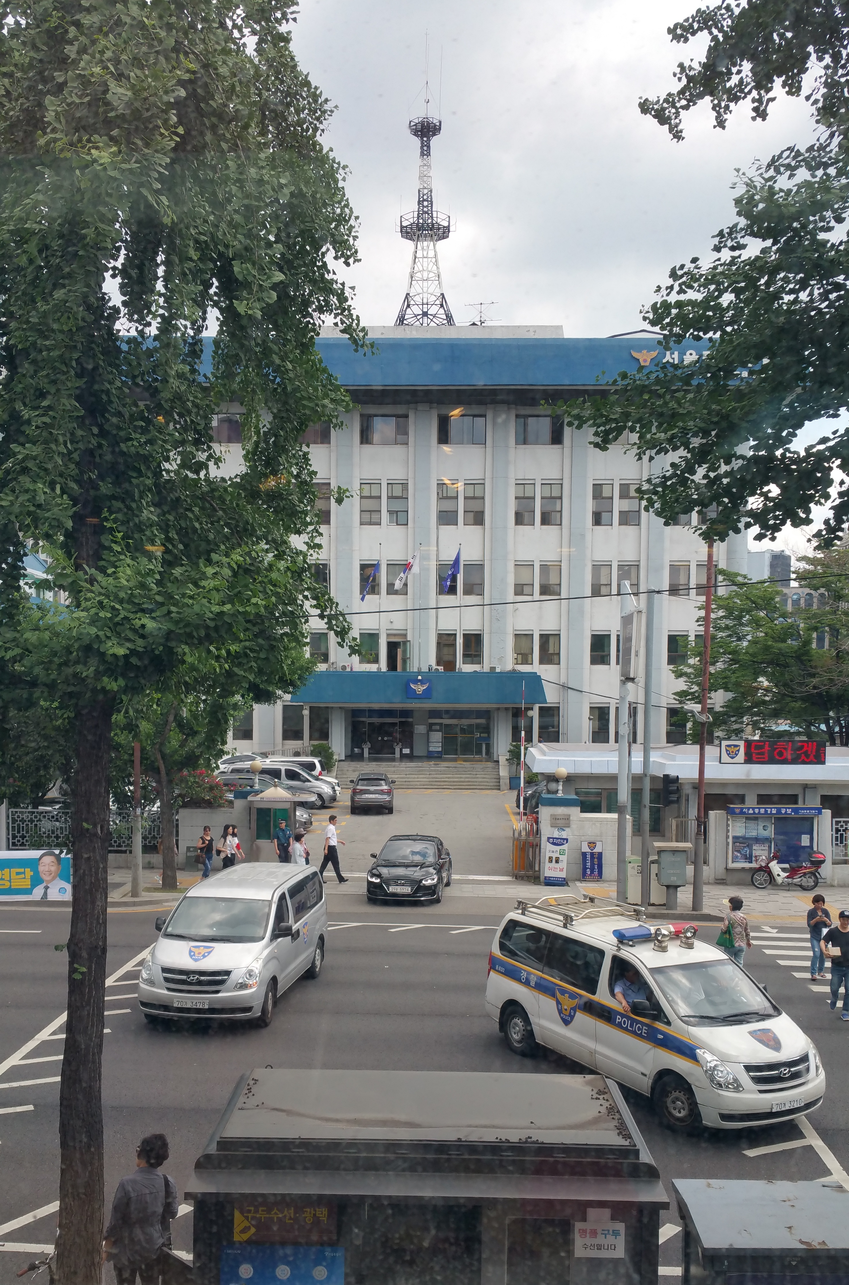 Seoul Metropolitan Police Agency, SMPA, 46, Yulgok-ro, Jongno-gu, Seoul, view from McDonald's, 2nd floor, across steet.